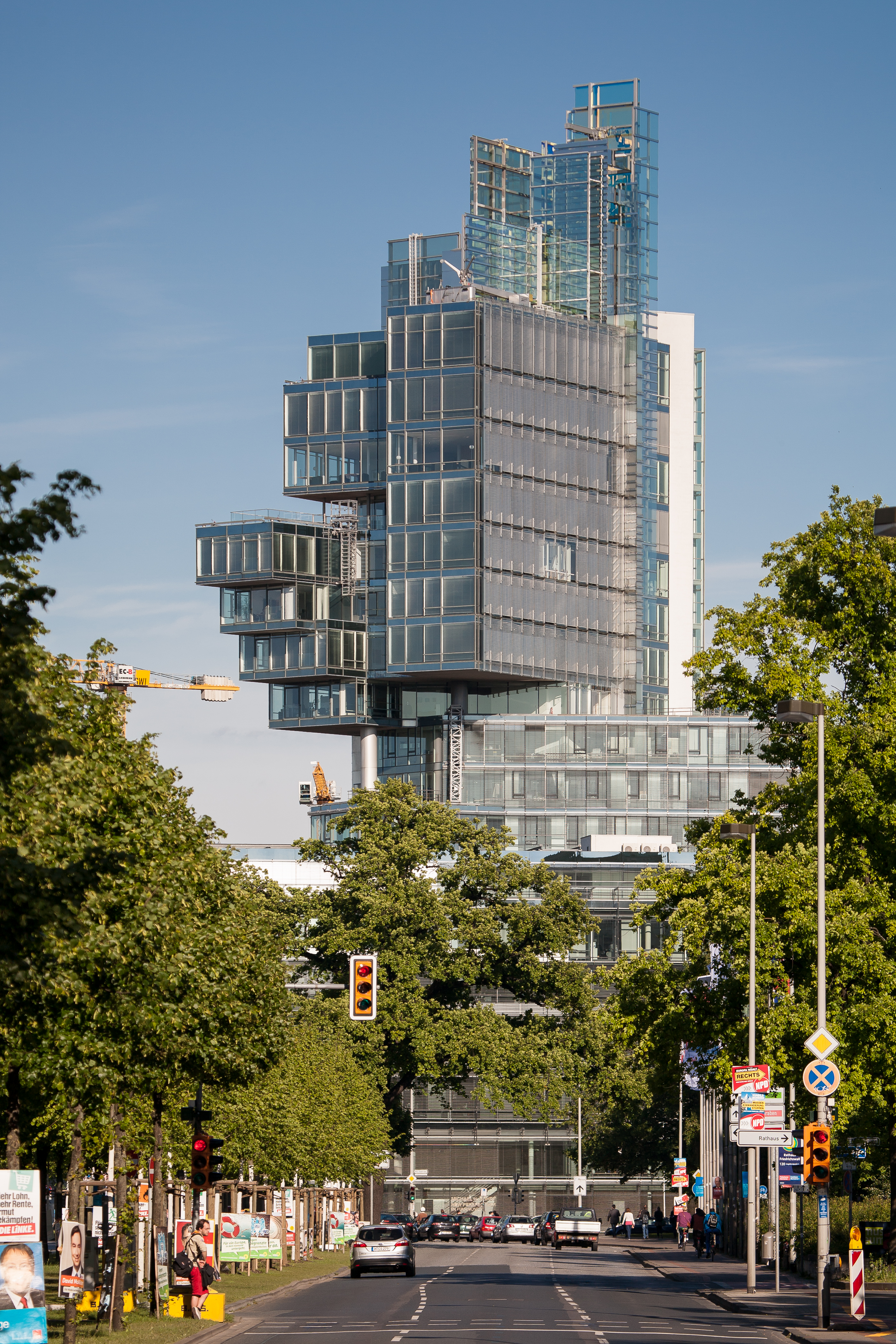 Administration building of the Norddeutsche Landesbank (Nord/LB) located in Hanover, Germany. View from the end of Friedrichswall road. - I gratefully acknowledge Holger Zernetsch for providing his zoom lens.